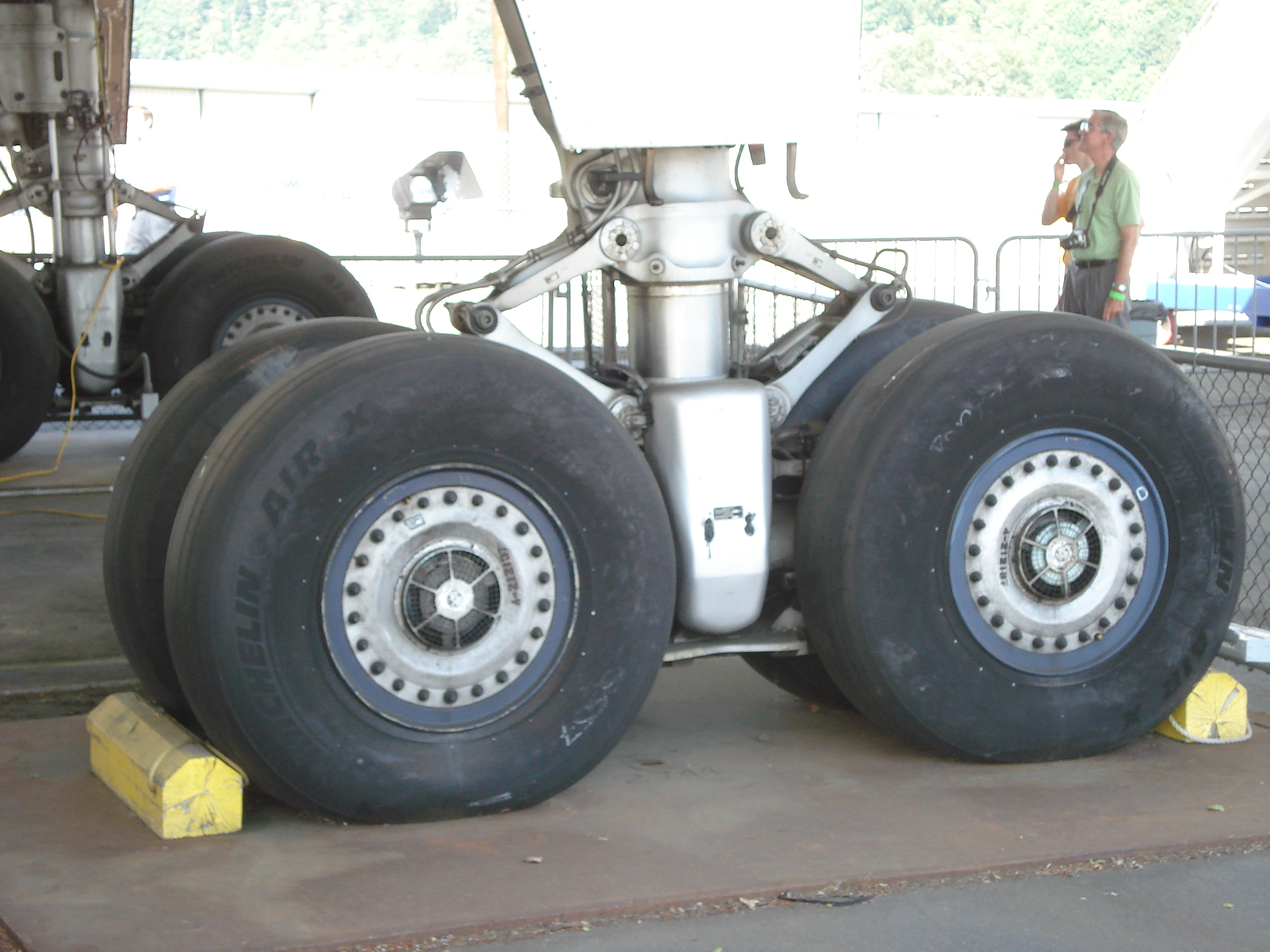 Undercarriage of a Concorde at the Museum of Flight in Seattle